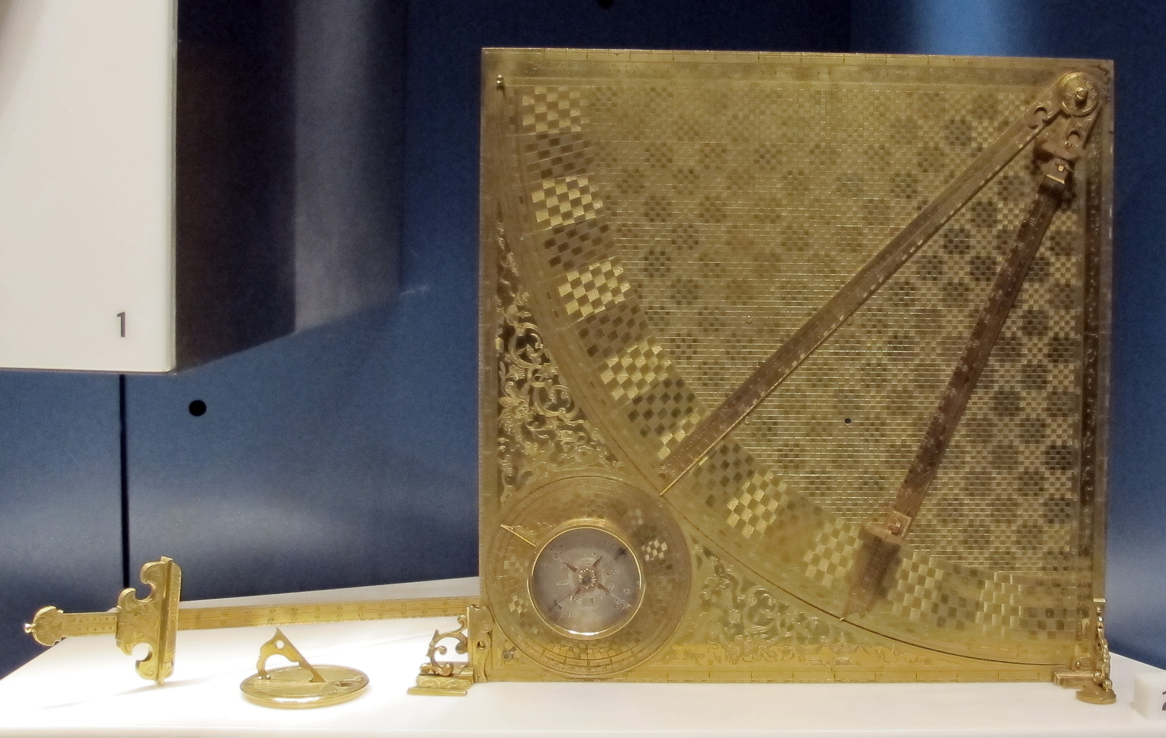 Quadrant.